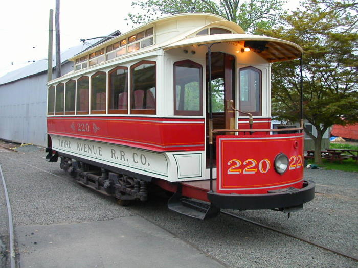 Third Avenue Railway 220 at Branford Electric Railway Association, 2002. Photo by Frank Hicks.